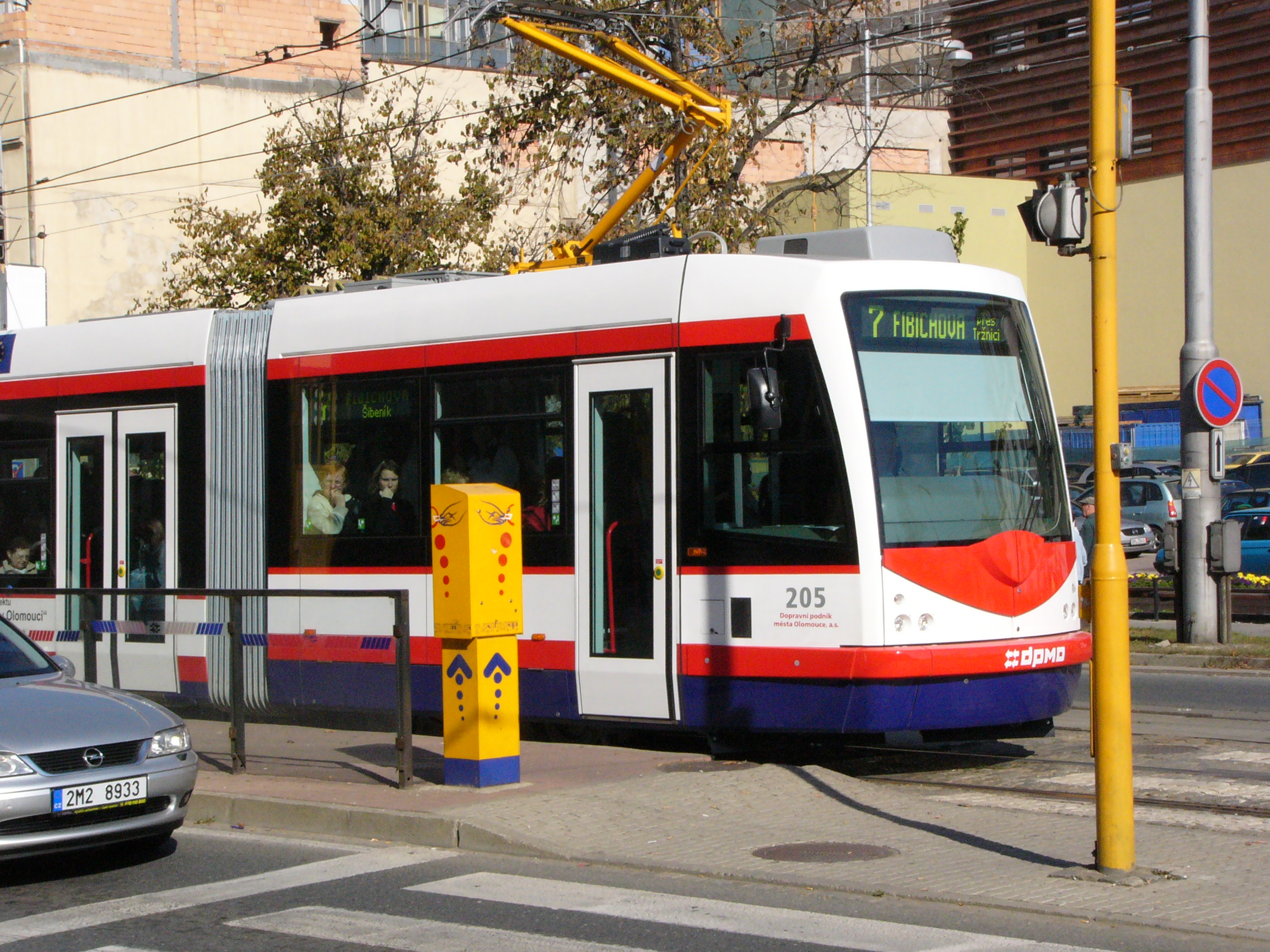 Tram Inekon 01 Trio in Olomouc (the Czech Republic). There is a ticket machine in front of the tram. See also File:Transport Ticket Machine in Olomouc.jpg.